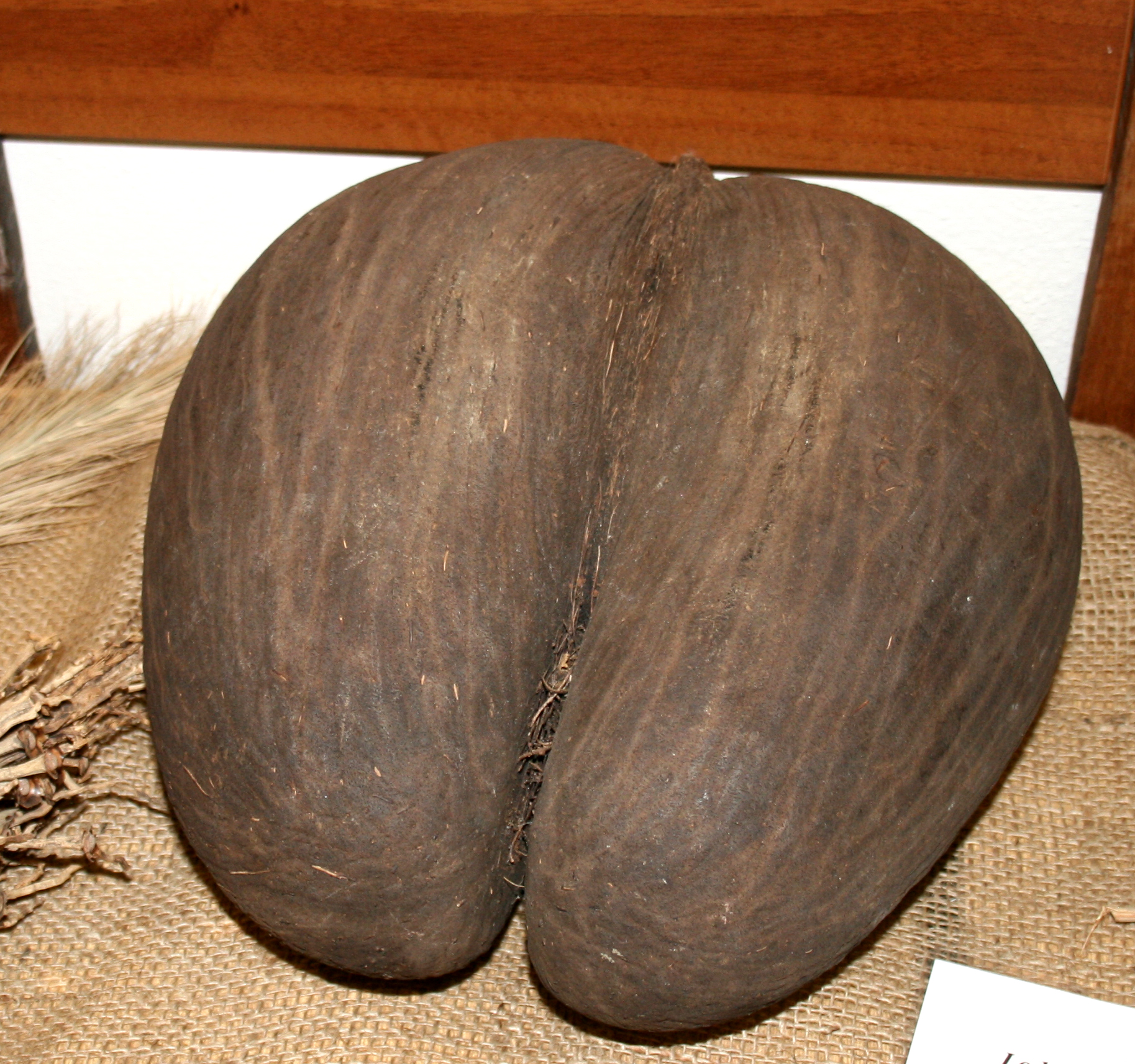 Seed of Lodoicea maldivica semeno palmy Lodoicea maldivica Prague Botanic garden Date=January 2008 Author= Karelj